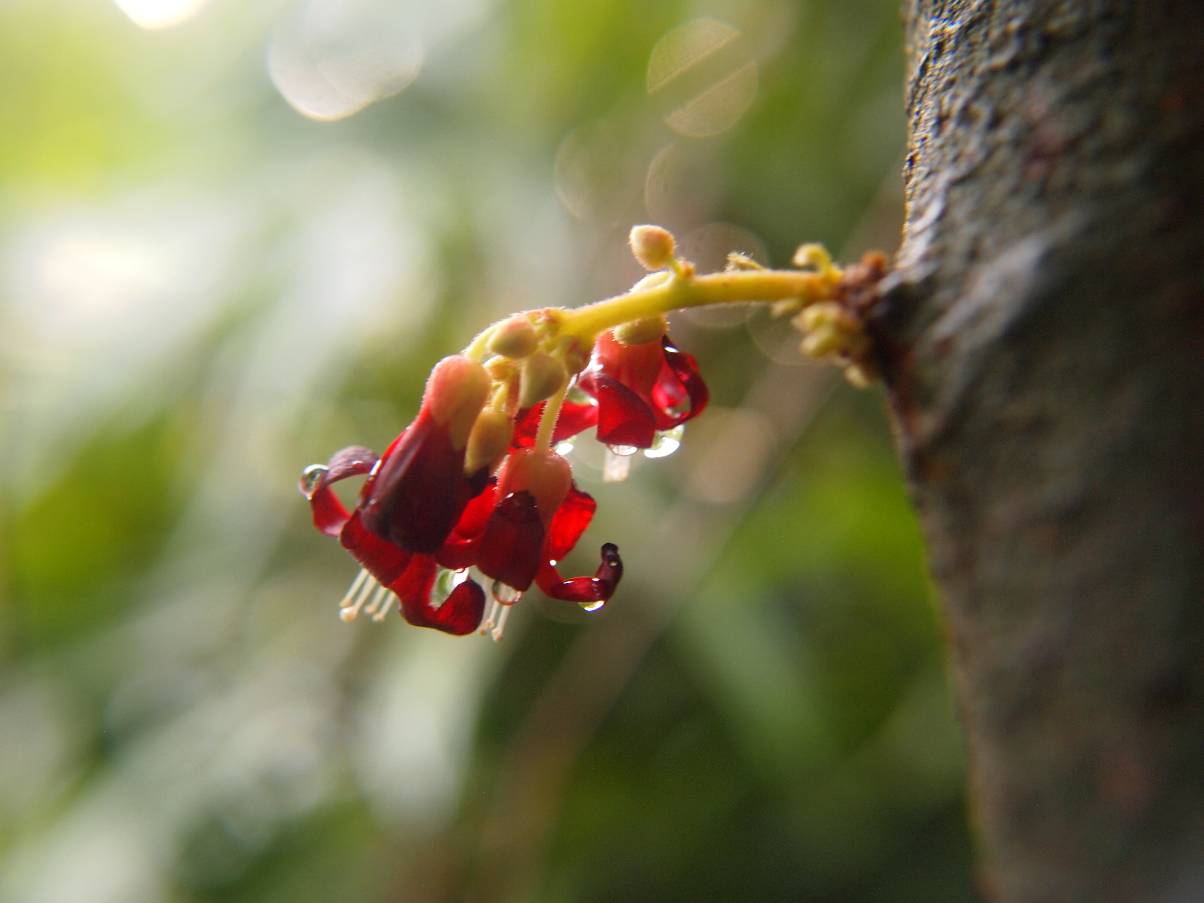 Averrhoa bilimbi flowering in Malaysia